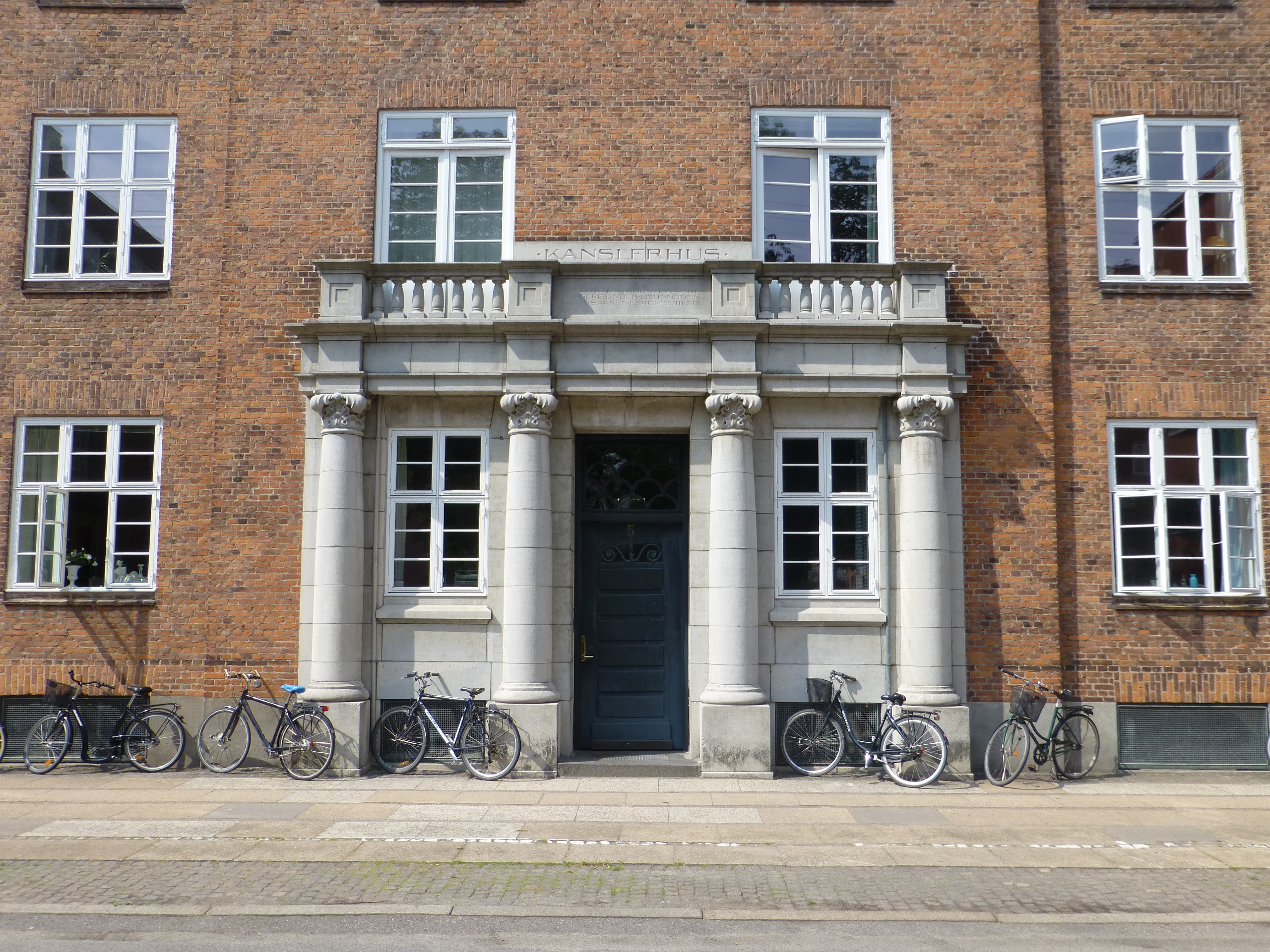 Entrance to the building complex Kanslerhus in Kanslergade at the square Ove Rodes Plads in Østerbro in Copenhagen.